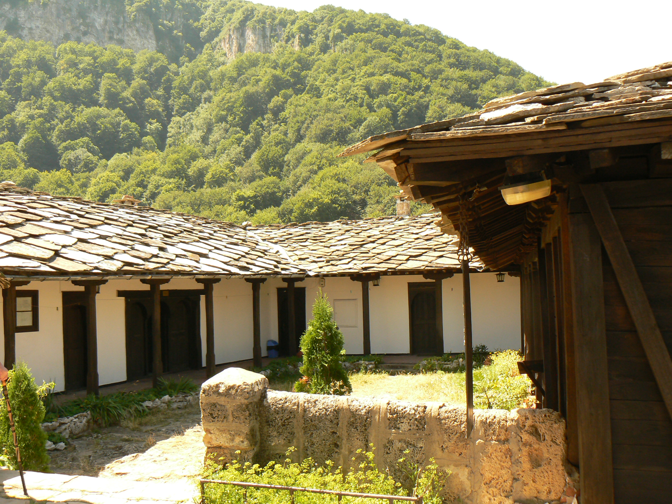 The churchyard of Glozhene Monastery, Bulgaria